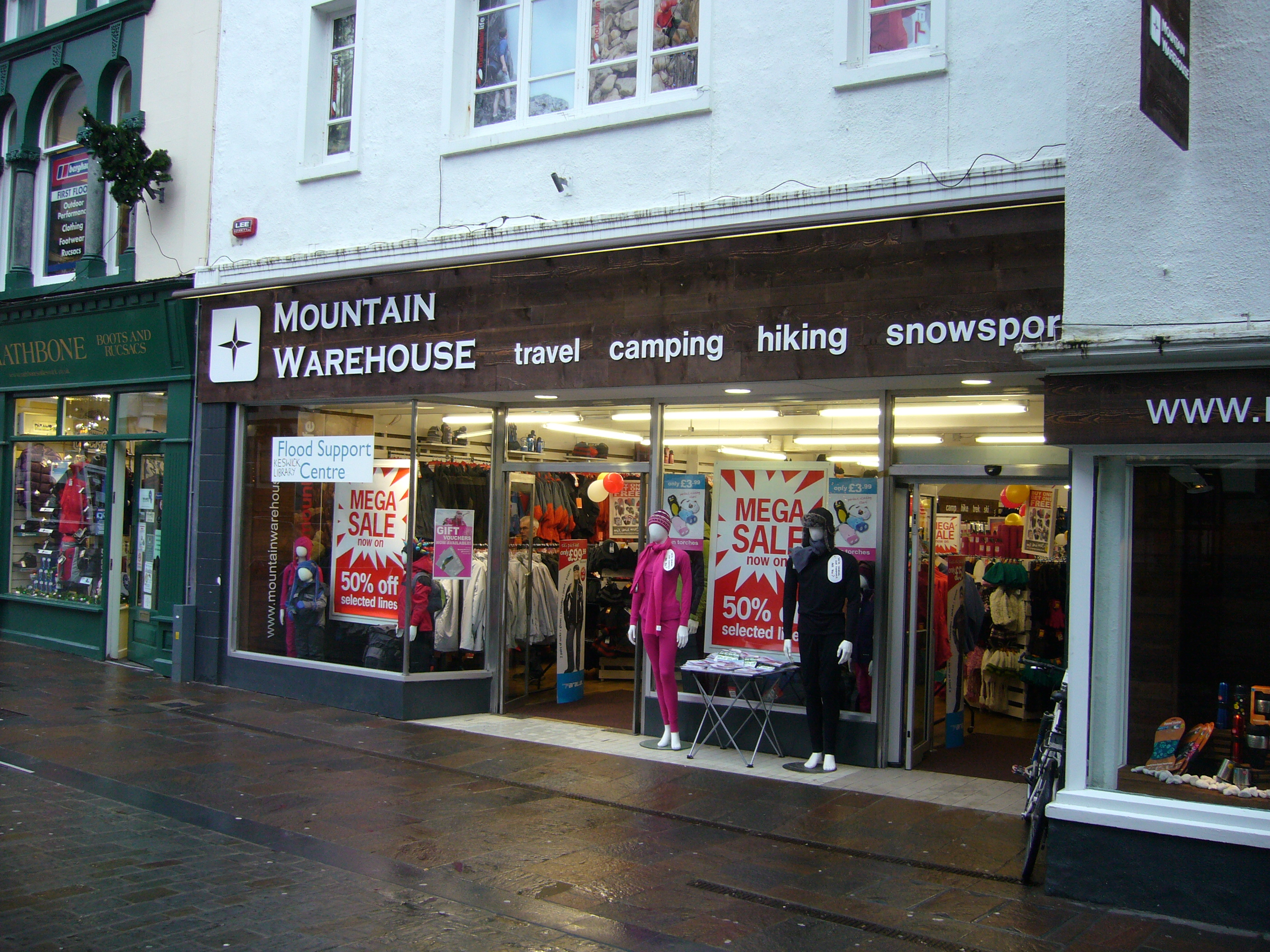 The former Woolworths store in Keswick a year after it closed in December 2008. The store became a "Mountain Warehouse" selling outdoor/hiking equipment.